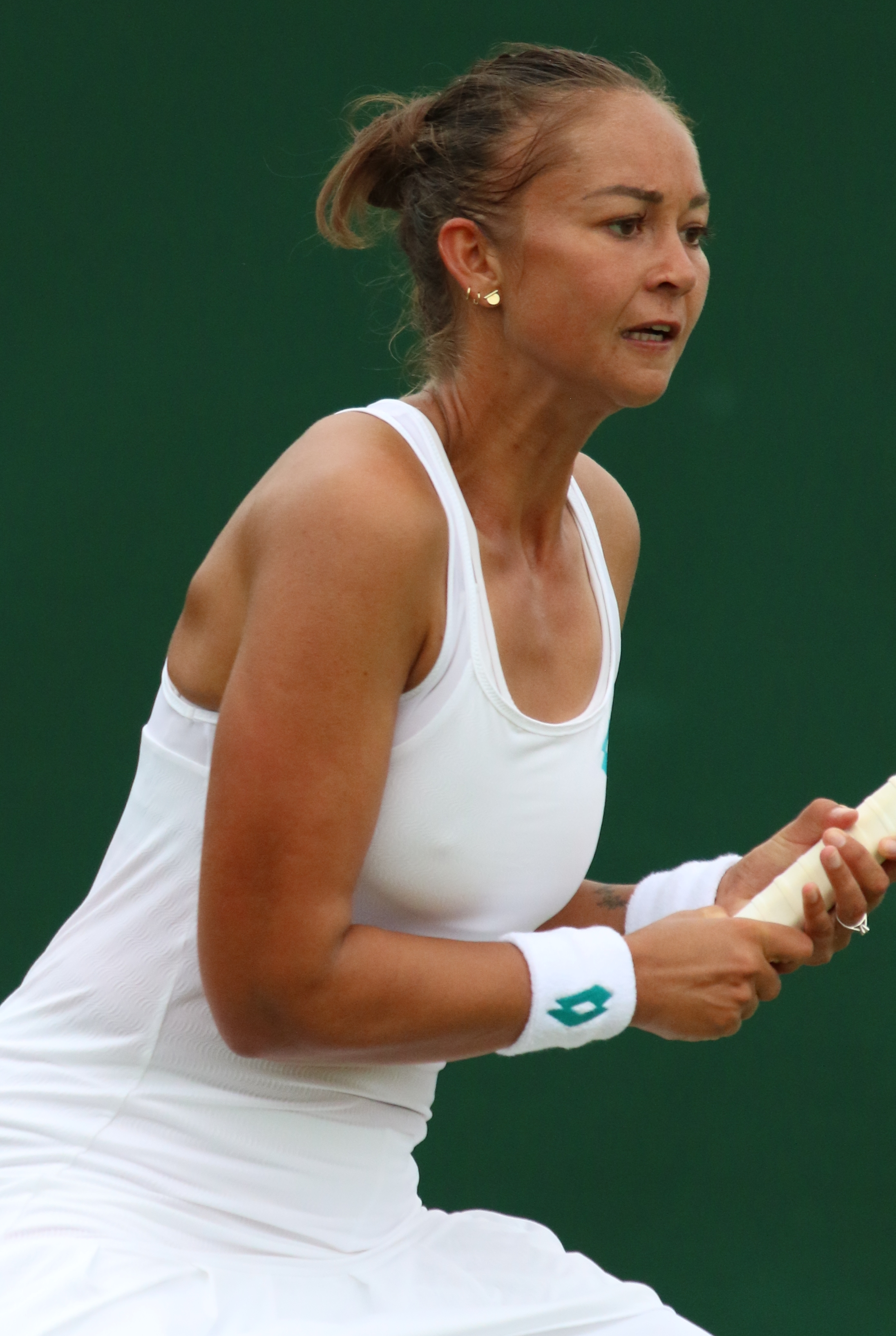 2019 Wimbledon Qualifying Tournament.